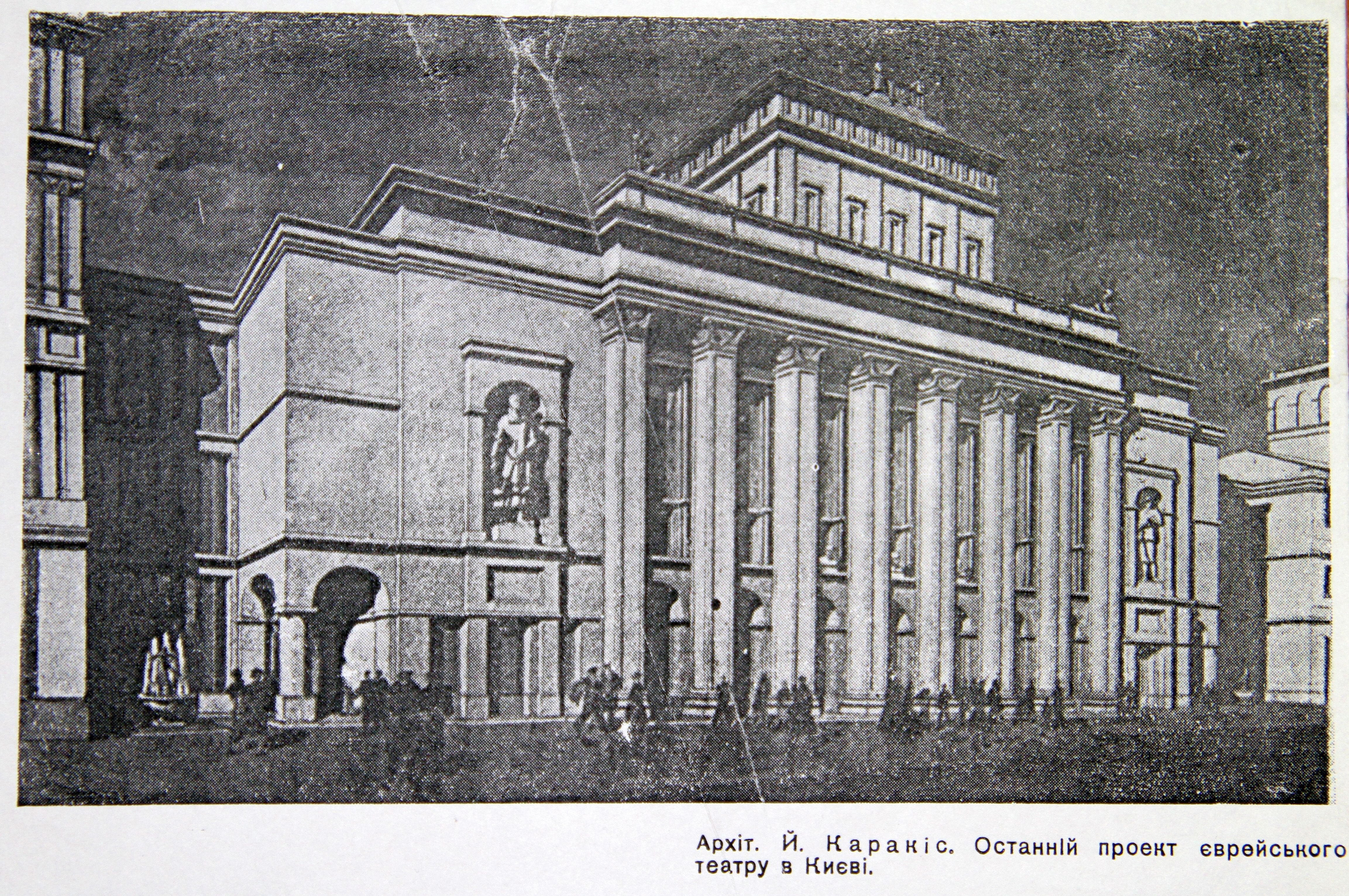 Jewish theater in Kiev by architect Joseph Karakis